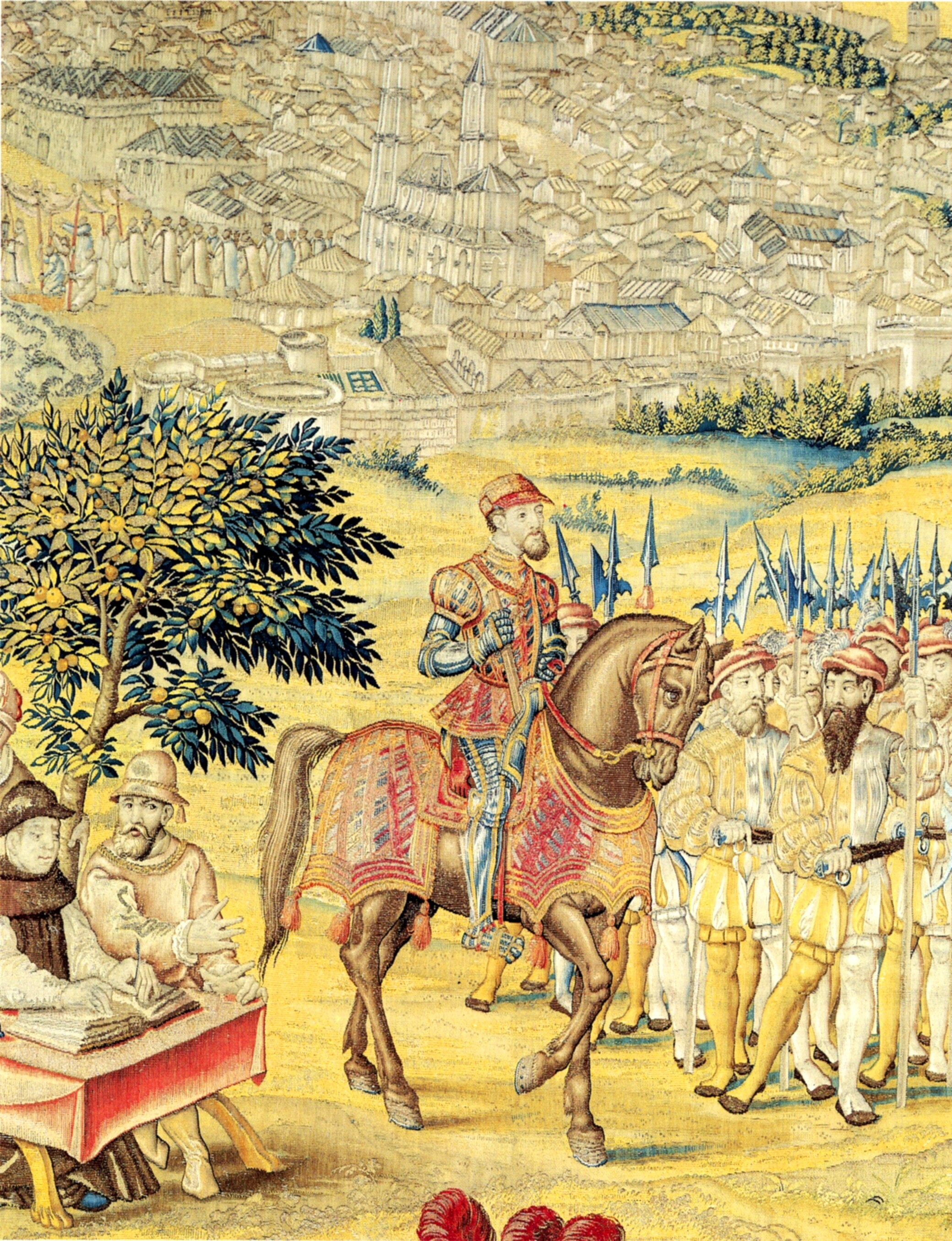 The Conquest of Tunis, 2nd tapestry, Detail Charles V, attended by the imperial guard.